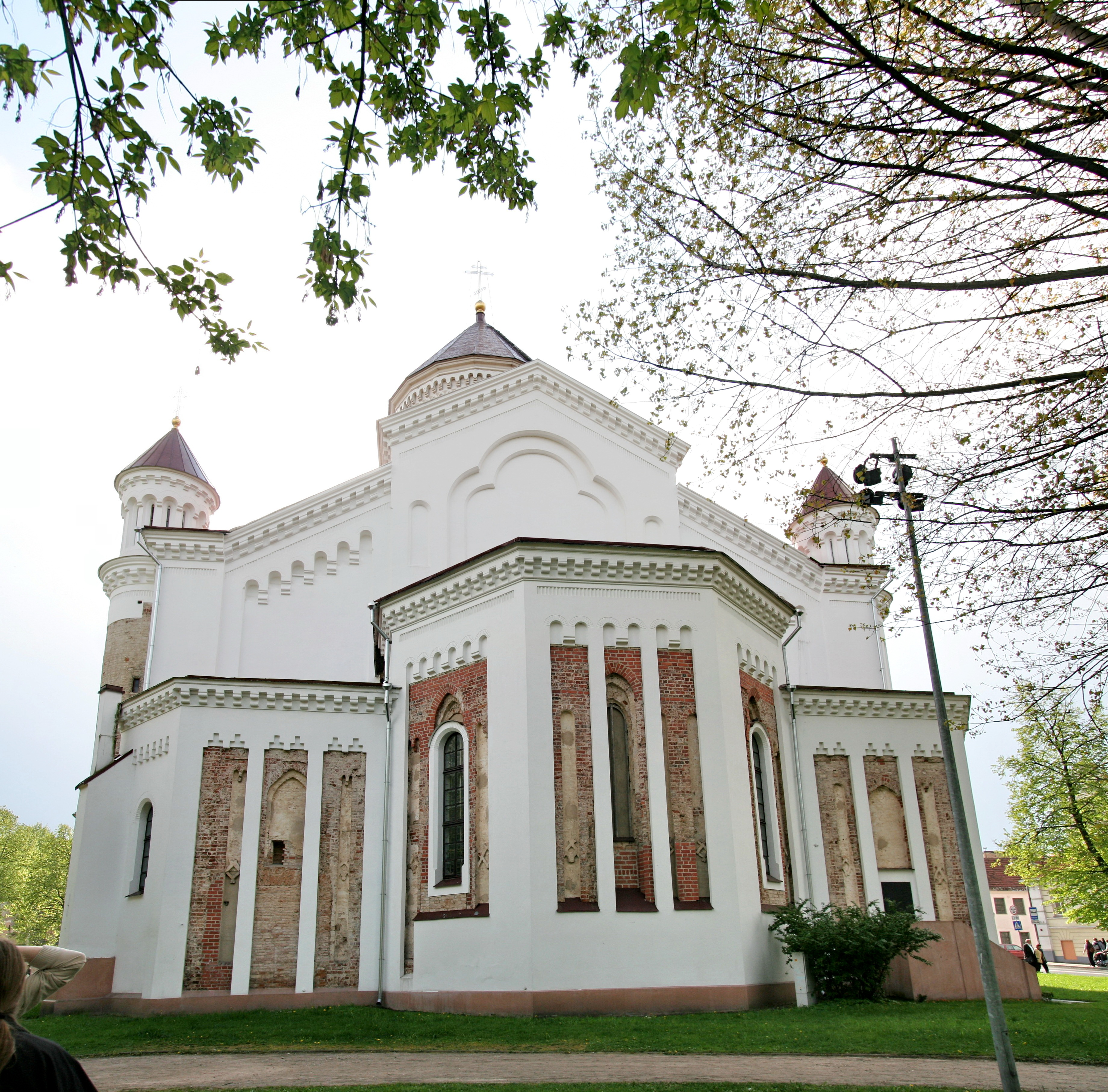 Orthodox Cathedral of the Dormition of the Theotokos in Vilnius